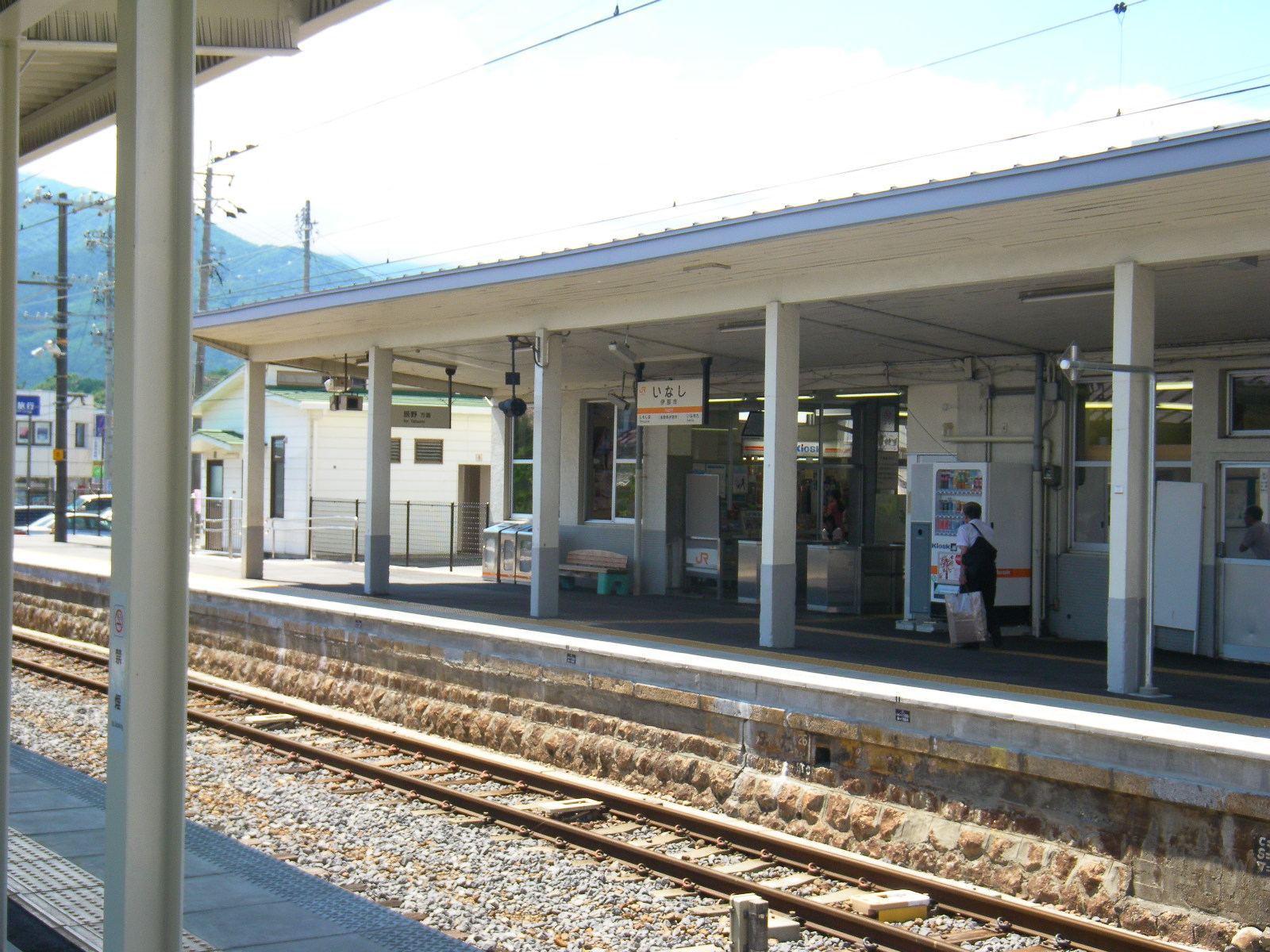 Platforms and the station building of Inashi Station, in Ina, Ina City, Nagano Prefecture, Japan